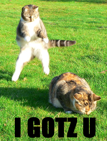 I haz April Foolz lolcats. Intended for use on an April Fool's page.